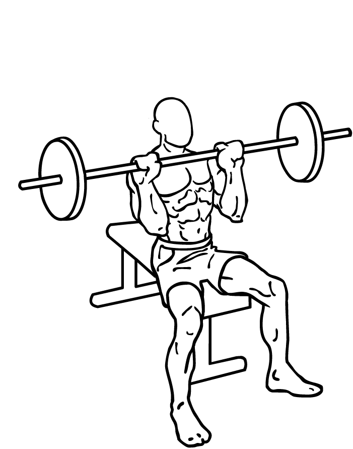 an exercise of shoulder